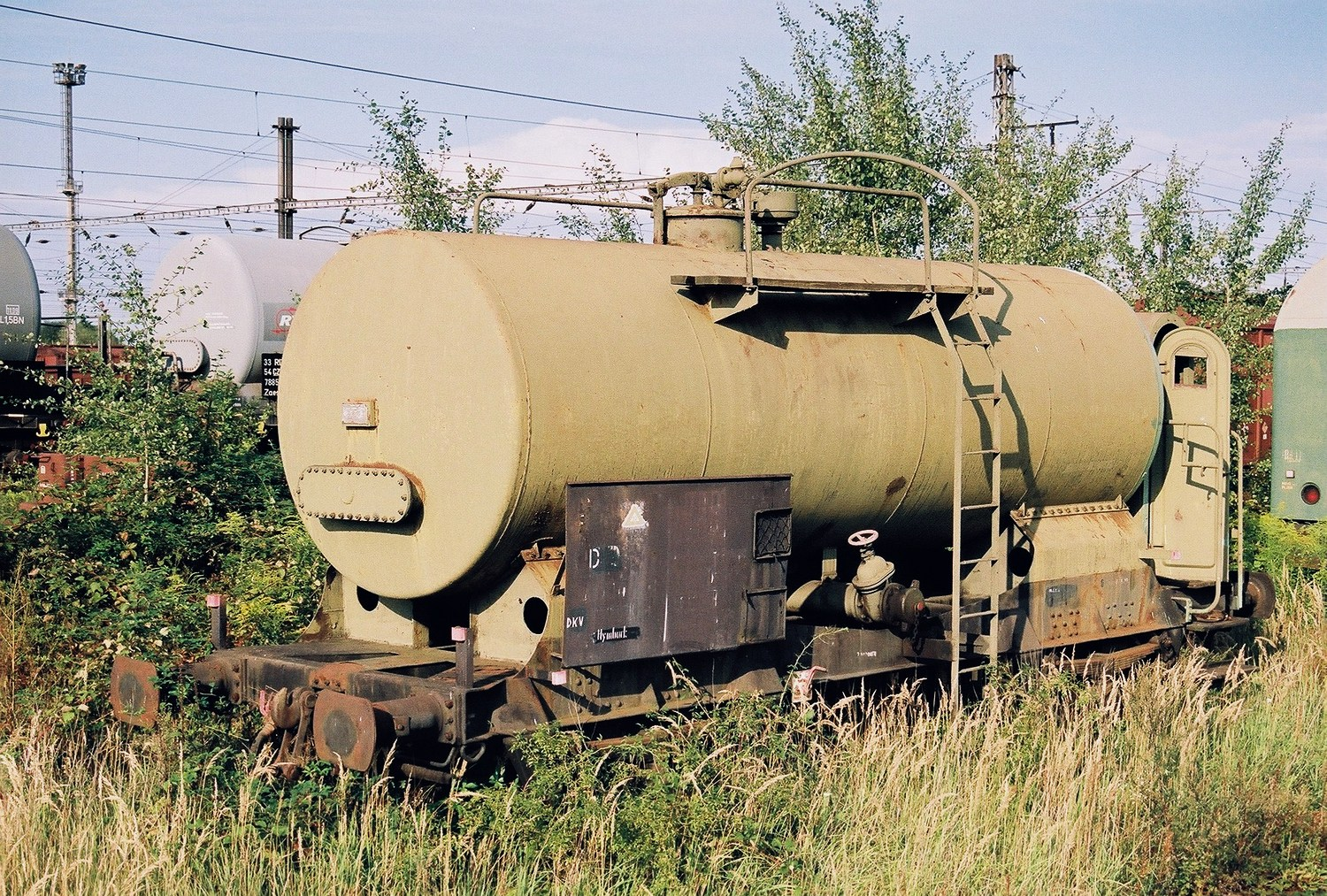 Store tankcar #39504 (built by Waggonworks Studenka, Czechoslovakia in 1961, Class Rh 200 hl w/ steel tank) of the Nymburk depot - already w/ removed heating system, in Nymburk depot (Czech rep.) (2007)